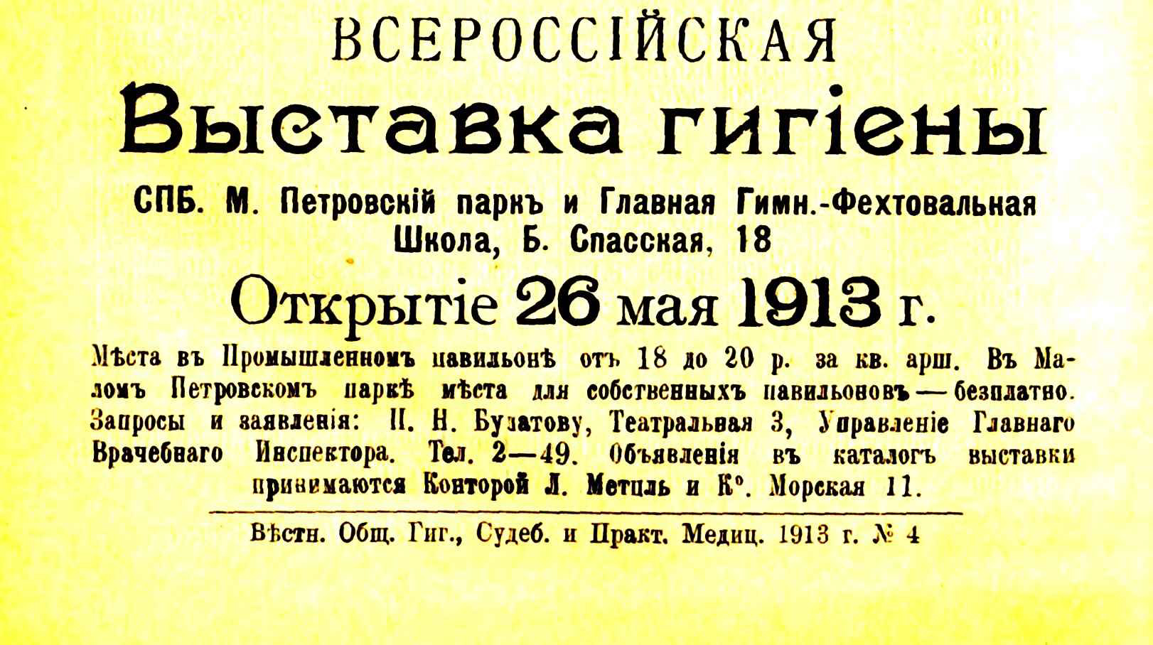 Announcement on opening exhibition hygiene